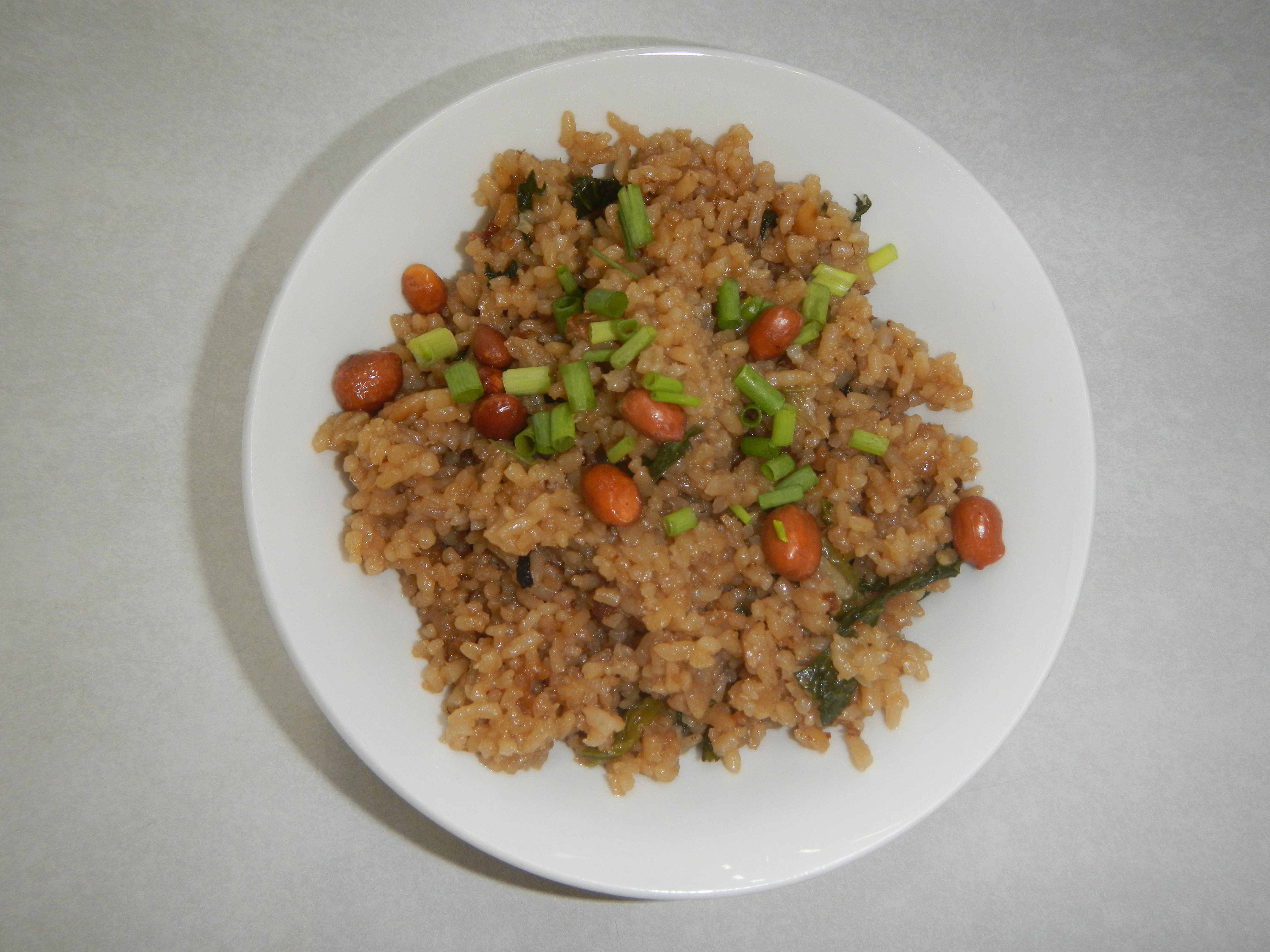 Kartilya ng Katipunan “The Life and Heroism of Gat Andres Bonifacio” Monument and Mural (Mehan Garden, Ermita, Manila) Sunsets at Recto Avenue, Santa Cruz, Manila Benincasa pruriens Kiampong Siopao and Longaniza (Note: Judge Florentino Floro, the owner, to repeat, Donor Florentino Floro of all these photos hereby donate gratuitously, freely and unconditionally all these photos to and for Wikimedia Commons, exclusively, for public use of the public domain, and again without any condition whatsoever).